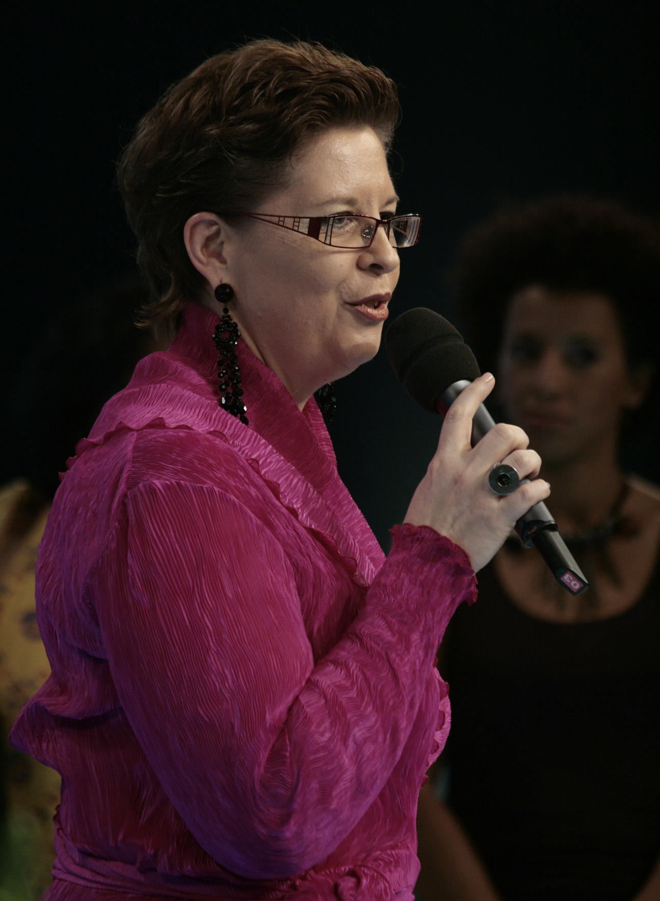 Christine Marek at the MiA-Awards 2009 (Studio 44, Vienna, Austria).